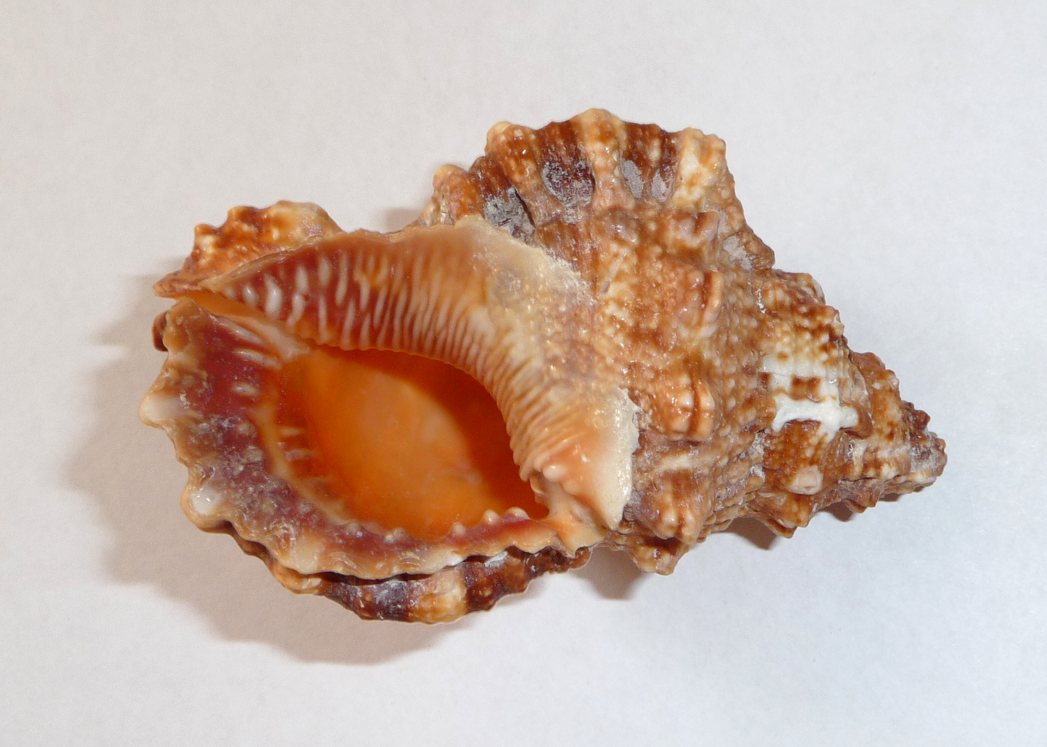 Reddish frog shell